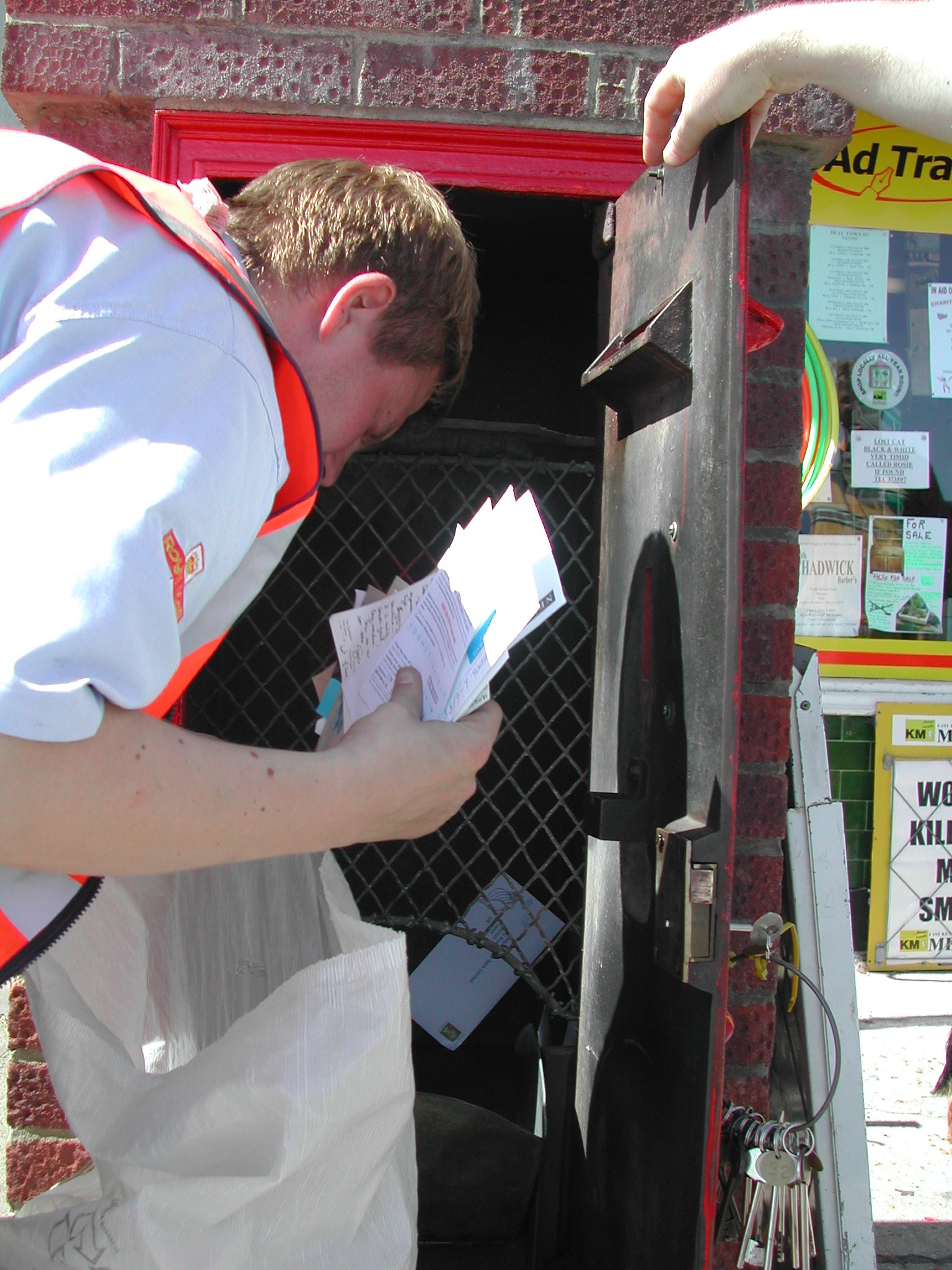 Type A wall box at Deal, Kent being cleared of mail